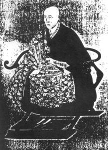 Portrait of Zen Master Takuan Soho